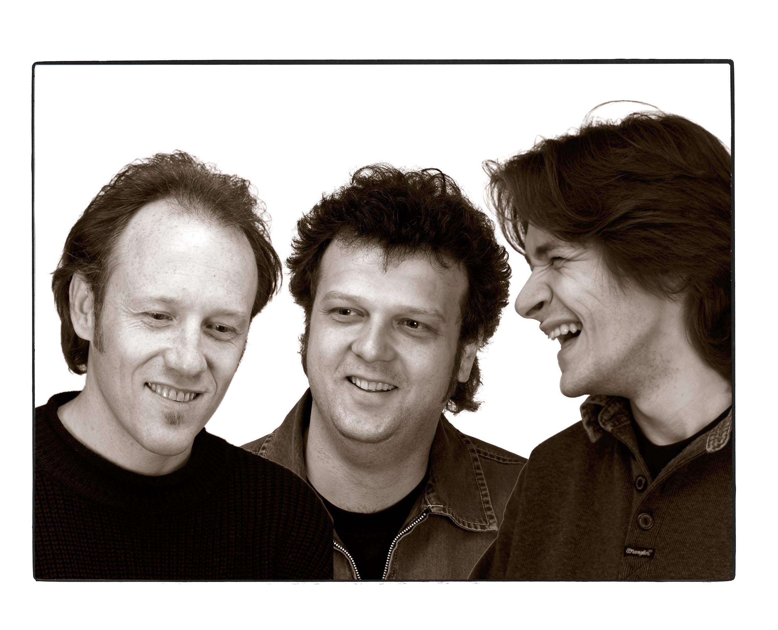 Portrait of the russian musical group Boa members